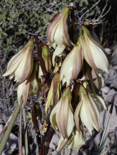 Photo of Yucca baccata in Red Rock Canyon, Nevada